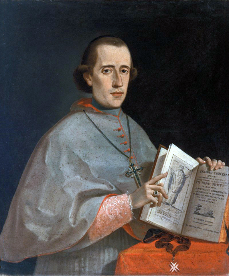 Arcivescovo_Antonio_Codronchi, ritratto, olio su tela (Beweb Beni Ecclesiastici in web - CEI - Ufficio Nazionale per i beni culturali ecclesiastici e l'edilizia di culto: Inventario dei beni storici e artistici della diocesi di Imola) (colori originali migliorati)